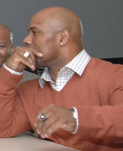 (Left to right) U.S. Naval Sea Cadet Corps Chief Petty Officer Kyle Herbert of College Park, Md., Petty Officer 3rd Class Petty Officer Leila Farzam, sea cadet, of Bethesda, Md., Navy Capt. John Sears of Alexandria, Va., Former NFL players Ken Harvey (Washington Redskins and Arizona Cardinals linebacker), Mark Washington (Dallas Cowboys and New England Patriots cornerback) and Eric Hipple (Detroit Lions quarterback ), Navy Lt. Kwasi Sneed and former NFL player Ricky Ervins (San Francisco 49ers running back) enjoy a laugh while watching the Seattle Seahawks and Chicago Bears NFL playoff game at Joint Base Anacostia-Bolling in Washington, D.C.. During the game, the players mingled with sailors, airmen, soldiers, Coast Guardsmen and Marines. During halftime, the players told the crowd that NFL players experience stress and depression at times during their careers, as well as while transitioning from the NFL to a post-NFL lifestyle. “Reaching out for help and talking about talking about the feelings is a sign of strength, not one of weakness,” said Hipple. “The NFL Players Association partnered with the Department of Defense Real Warriors Campaign and JBAB to encourage military and civilian personnel to seek assistance for depression, stress and other psychological situations just as they seek medical assistance for physical injuries,” Sears, JBAB commanding officer, said.